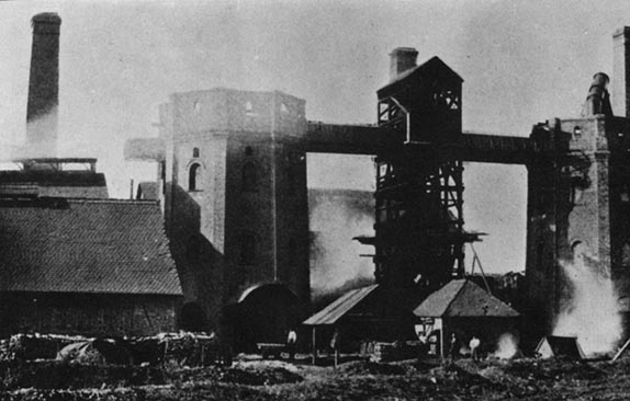 the Călan (Pusztakalán) iron furnace — in Romania, in 1896.